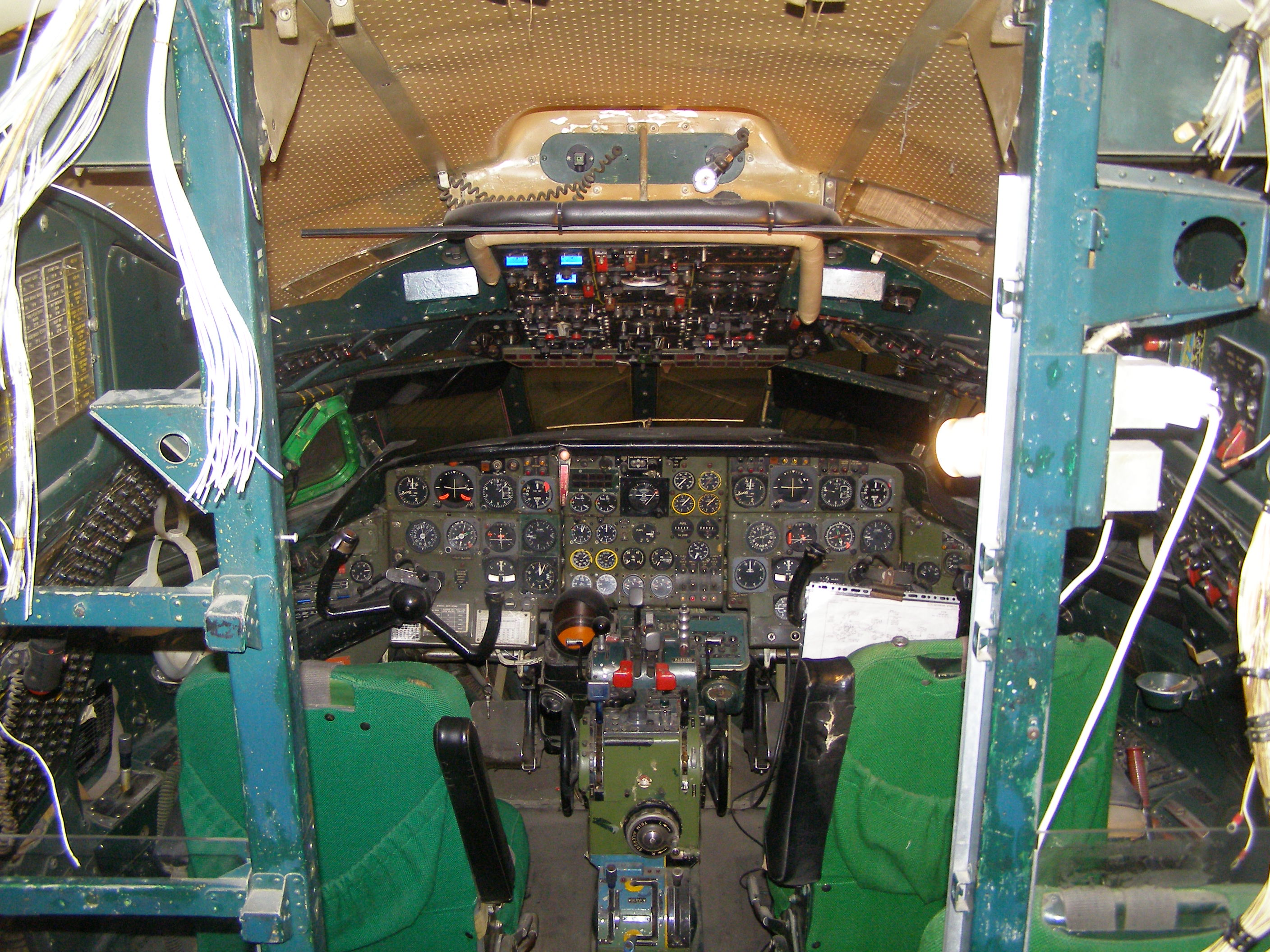 Cockpit of Sud Caravelle airliner formerly PH-TRO of Transavia, on display at Aviodrome Lelystad in 2009